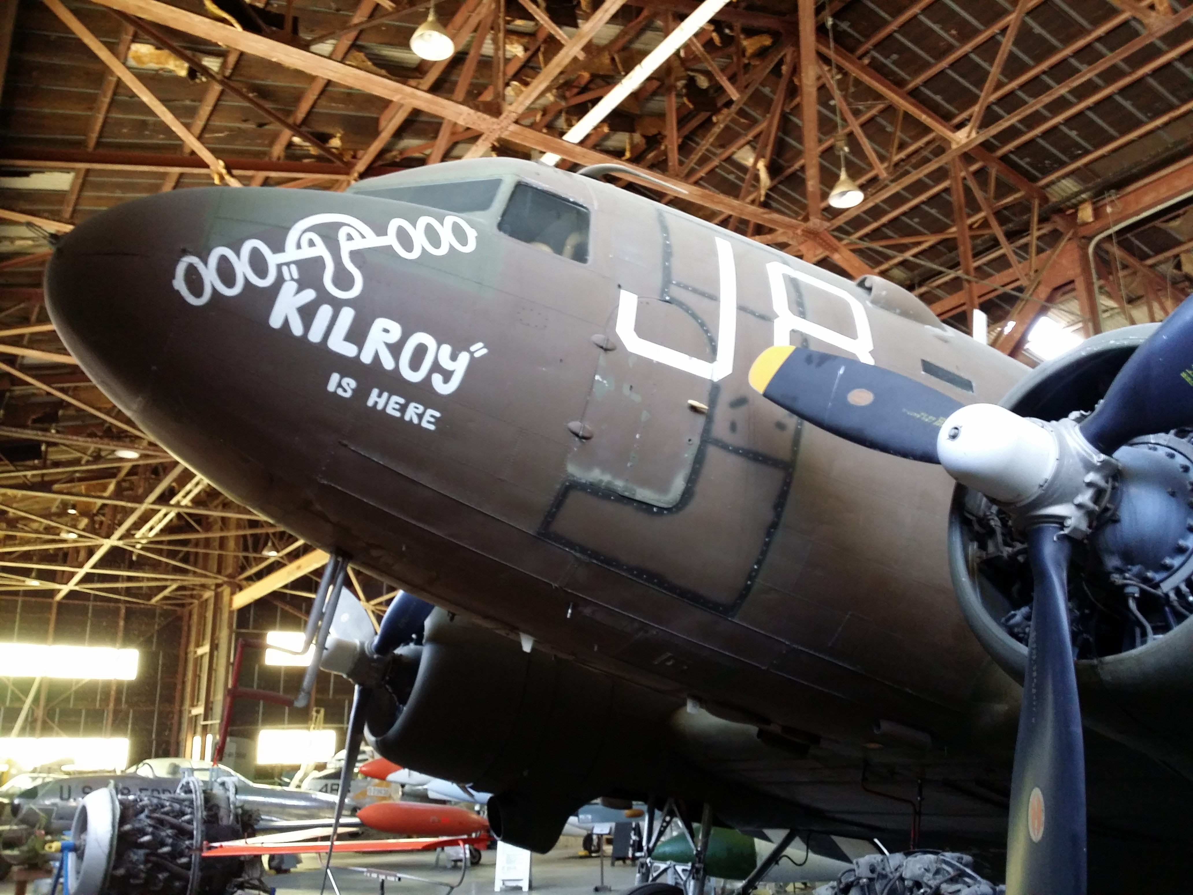 Williamsport, KS, USA